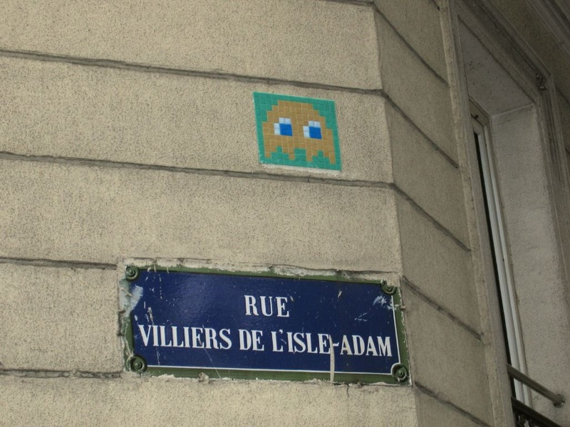 Plaque of Rue Villiers De L'Isle Adam in Paris